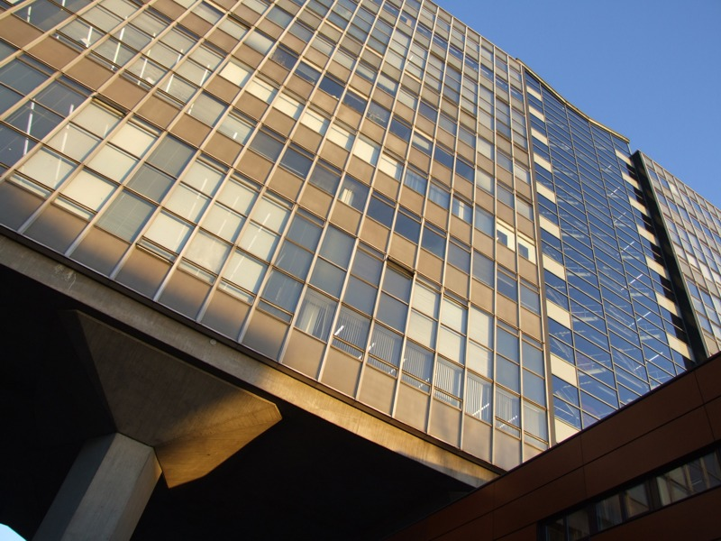 Eindhoven University of Technology